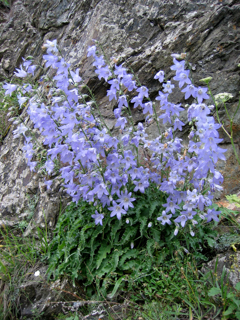 Campanula sarmatica in its habitat. Georgia, Cartli.